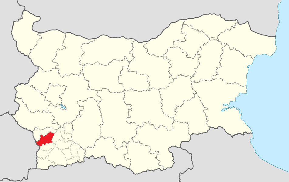 Location map of Simitli Municipality within Bulgaria and Blagoevgrad province